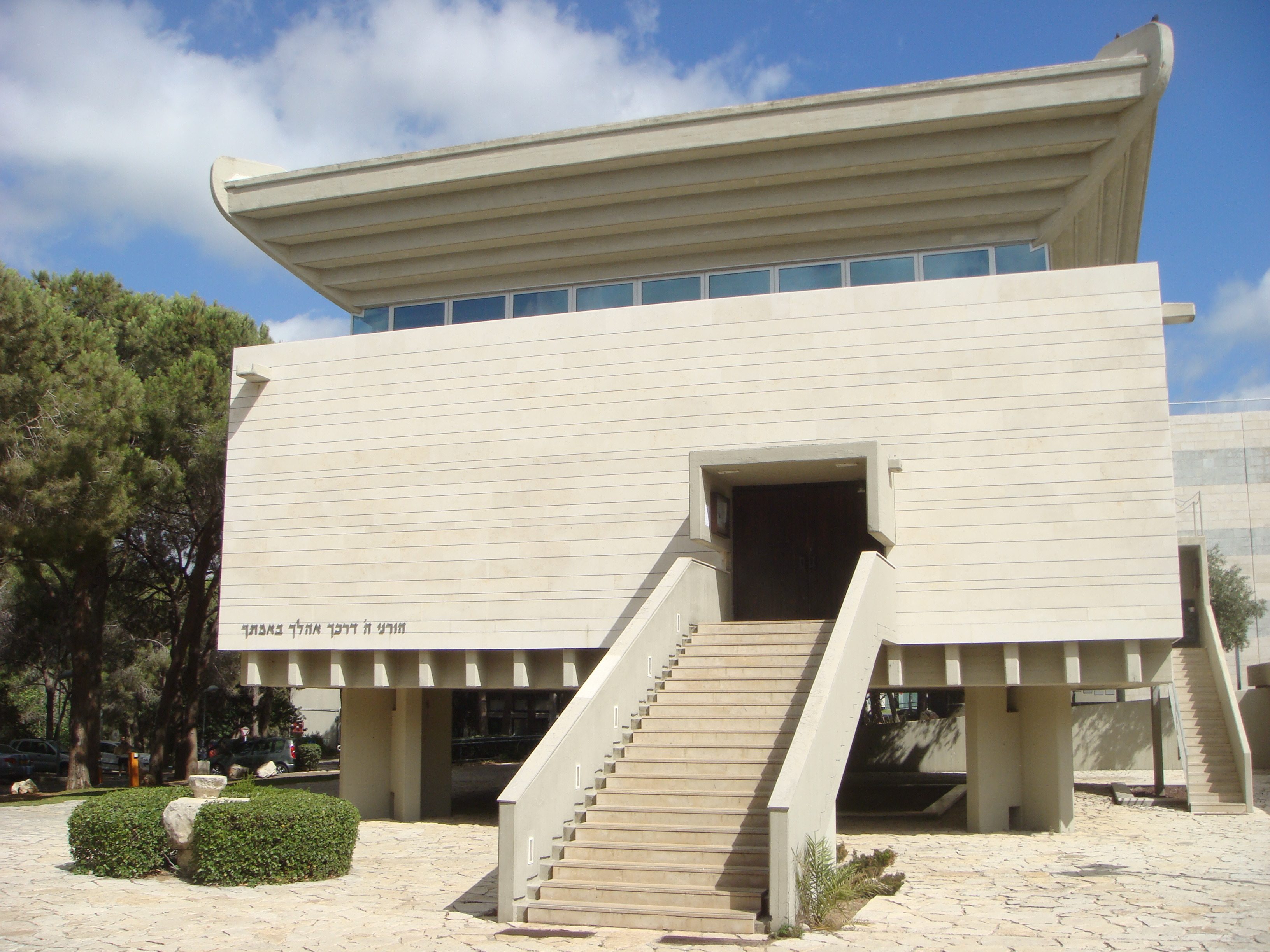 The Synagogue of the Technion in Haifa.